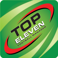 Top Eleven Football Manager logo